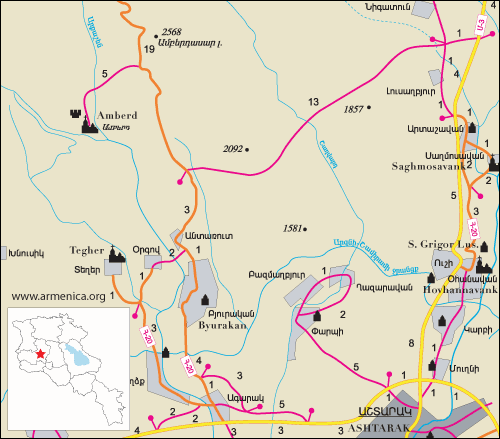 Location map of Ambert's Vahramashen Church